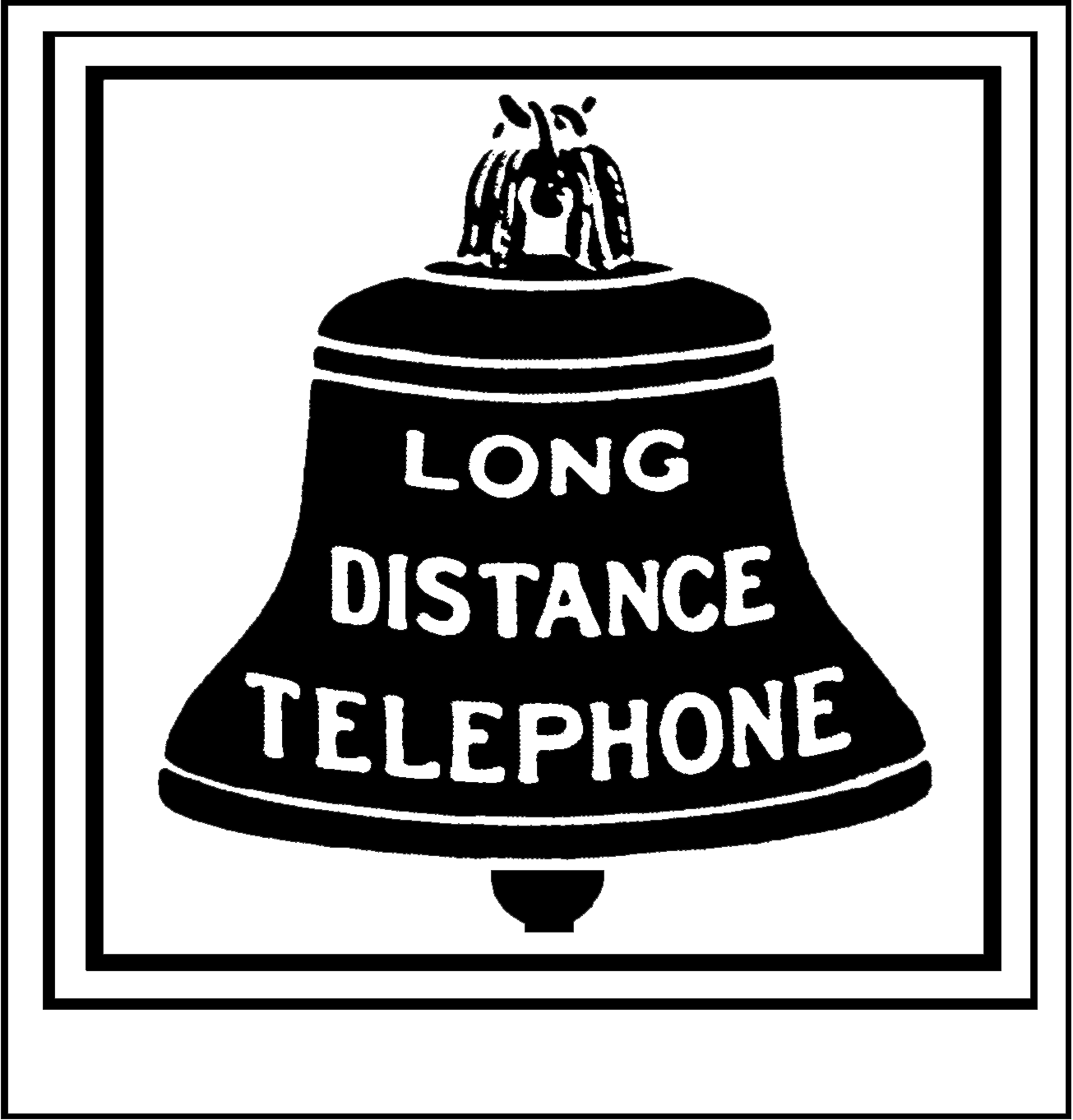 Bell System logo, 1889 Bell System logos These images are intended for the Bell System and possibly associated articles, to illustrate the history of the Bell System. Started with Bell System Memorial- Bell Logo History. Result was seven similar images with free formats: Image:Bell System hires 1889 logo.PNG Image:Bell System hires 1900 logo.PNG Image:Bell System hires 1921 logo.PNG Image:Bell System hires 1939 logo.PNG (now available as Image:Bell System hires 1939 logo.svg) Image:Bell System hires 1964 logo.PNG (now available as Image:Bell System hires 1964 logo.svg) Image:Bell System hires 1969 logo.PNG (now available as Image:Bell System hires 1969 logo.svg) Image:Bell System hires 1969 logo blue.PNG (now available as Image:Bell System hires 1969 logo blue.svg)